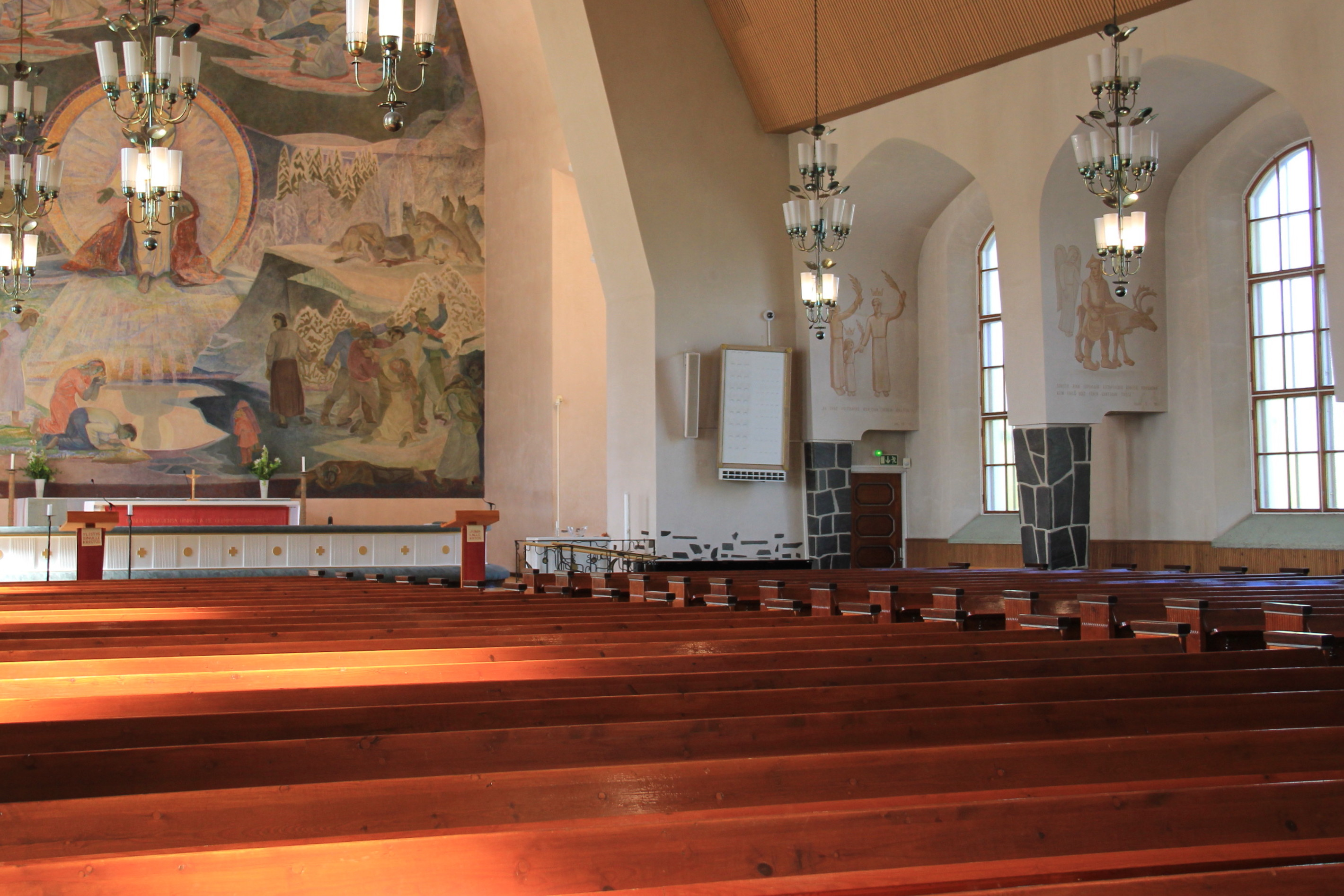 Rovaniemi church, Rovaniemi, Finland. - Church front. Altar wall fresco by Lennart Segerstråle, other decorative paintings by Antti Salmenlinna.